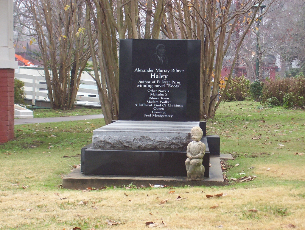 Memorial in front of Alex Haley's boyhood home in Henning, TN (Dec. 2007). The marker reads: Alexander Murray Palmer Haley Author of Pulitzer Prize winning Novel "Roots". Other Novels: Malcolm X Palmer Town Madam Walker A Different Kind Of Christmas Queen Henning Fred Montgomery (Please do not remove the full text of the marker, this makes it easier for blind people to convert to Braille and read it. Converting the text from the image would be hard to do. Thank you!)